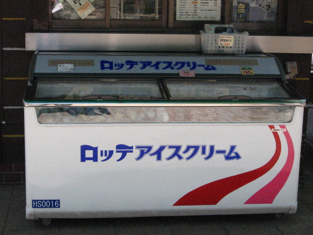 Lotte Ice cream showcase box.